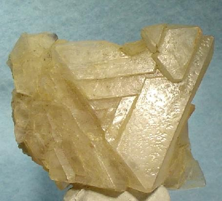 Alum-(K) Locality: Alum King Occurrence (Big Star), Henry District, Antelope Range, Sevier County, Utah, USA (Locality at ) Size: 5.4 x 5.0 x 2.7 cm. Lustrous, water-clear to translucent, super sharp, zoned potassium alum crystals from an uncommon Utah locality - the Alum King Mine in Piute County. The piece has neat, stepped triangular form, reflecting the isometric crystal structure. Ex. John Ydren Collection.